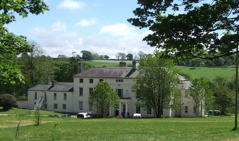 Sealyham Mansion Georgian country house, TB sanatorium from 1923 to 1966, now a children's activity centre. Once the home of the Edwardes family. The Sealyham terrier was developed here in the 19th century by Captain John Owen Tucker-Edwardes as a rough-haired terrier for vermin control. NB The house seems to lie very close to, or partly in, the gridsquare to the south.